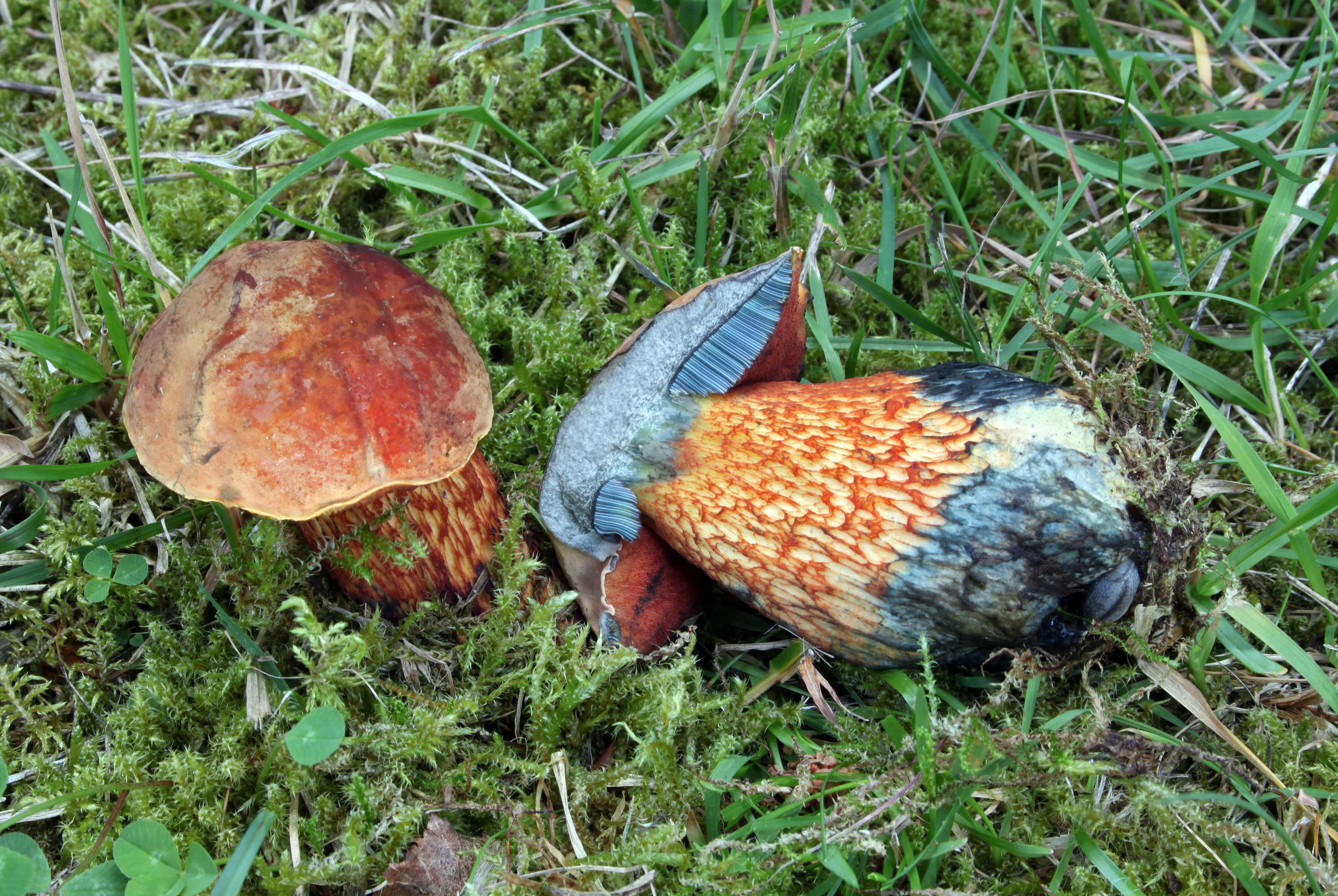 Lurid Bolete Boletus luridus, Family: Boletaceae, Location: Germany, Ulm, Ermingen